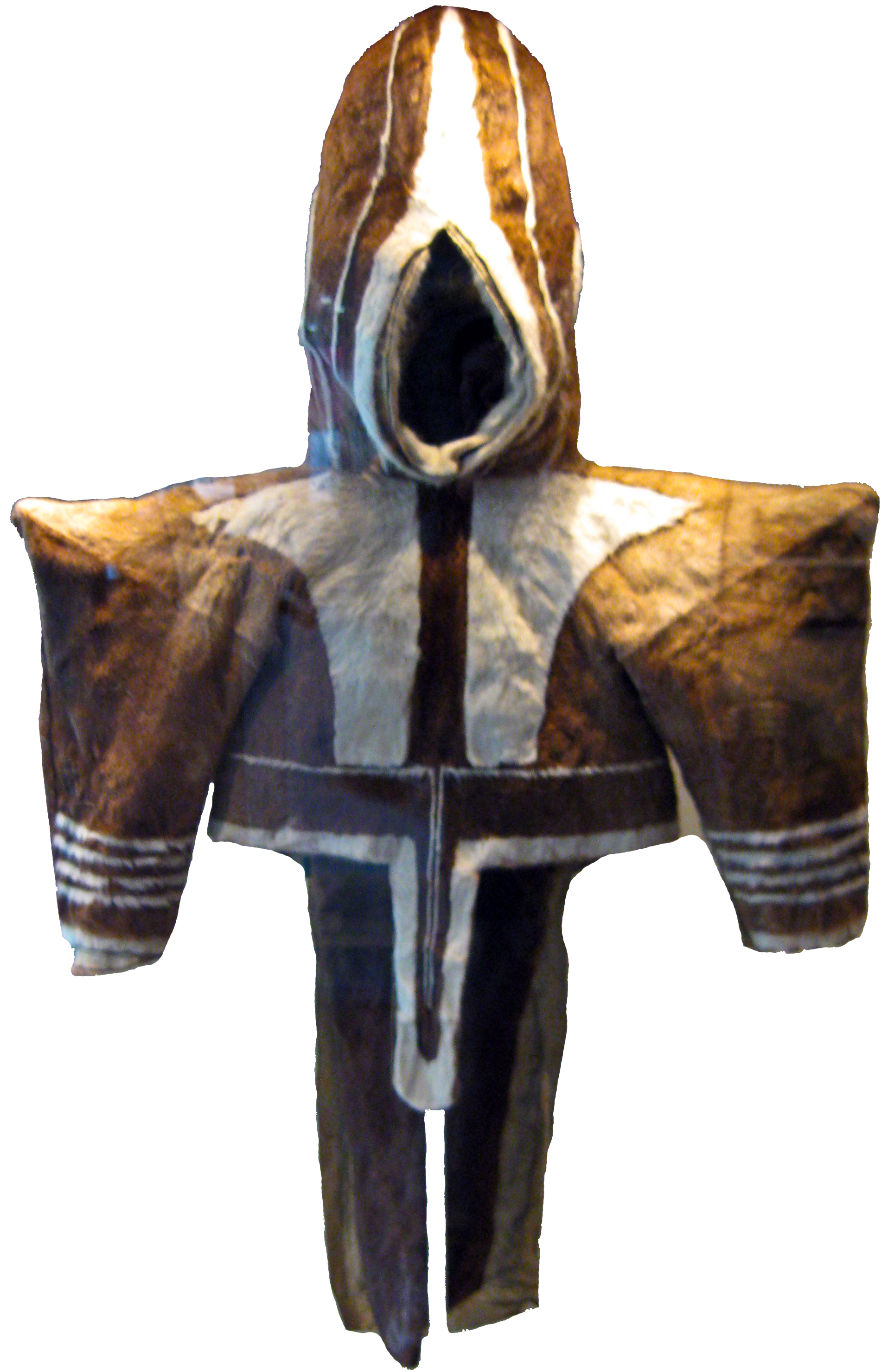 This Inunait or Inuit parka/anorak is typical of an Inuit woman's parka from the early 1900s and was made from the thin skins of summer caribou (the summer skin is short, mostly consisting of tight underwool). The parka has 2 extra layers to provide additional warmth to its user. It is today part of the permanent collection of the UBC Museum of Anthropology in Vancouver, Canada.